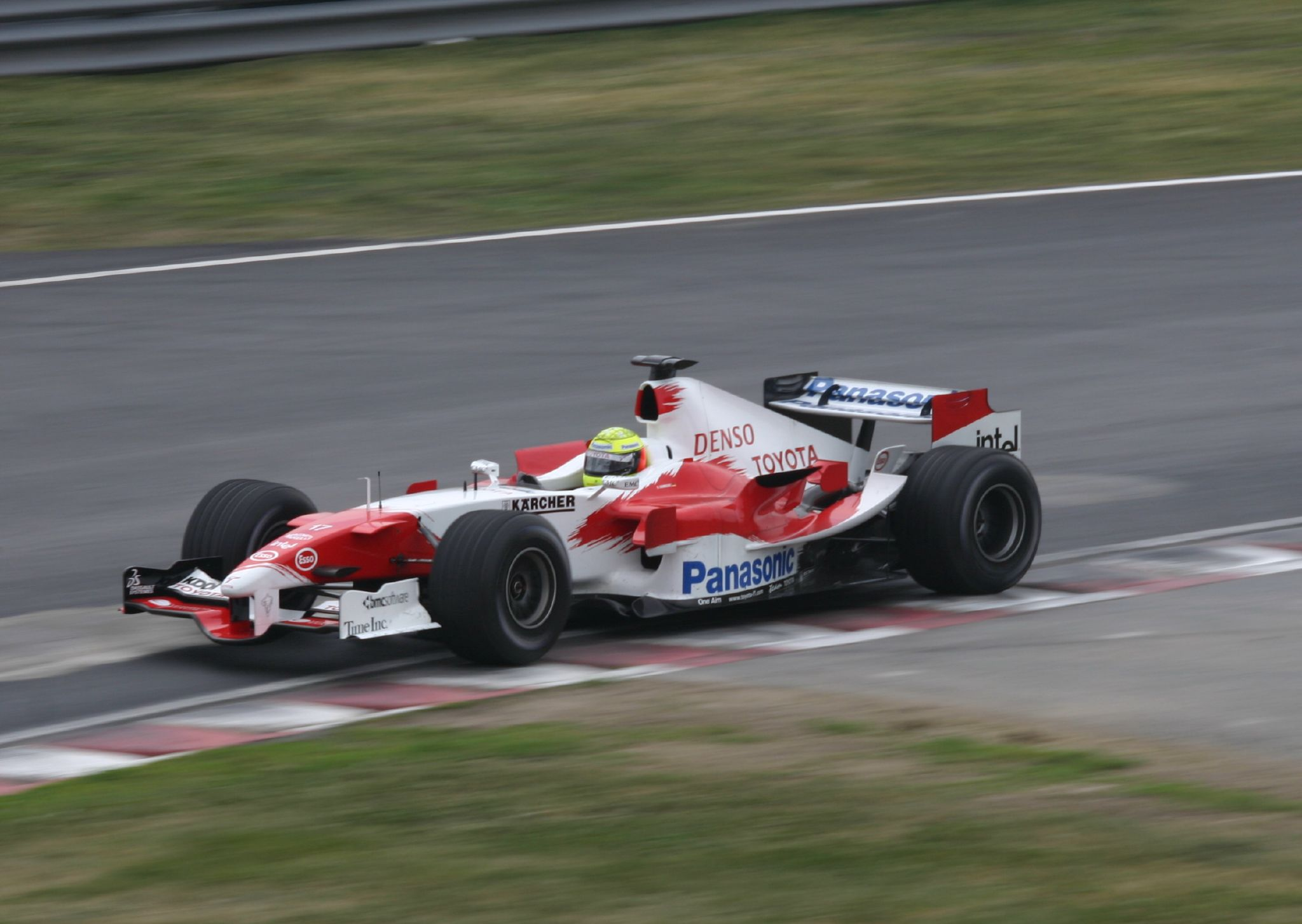 Ralf Schumacher driving for Toyota F1 at the 2005 Canadian Grand Prix.